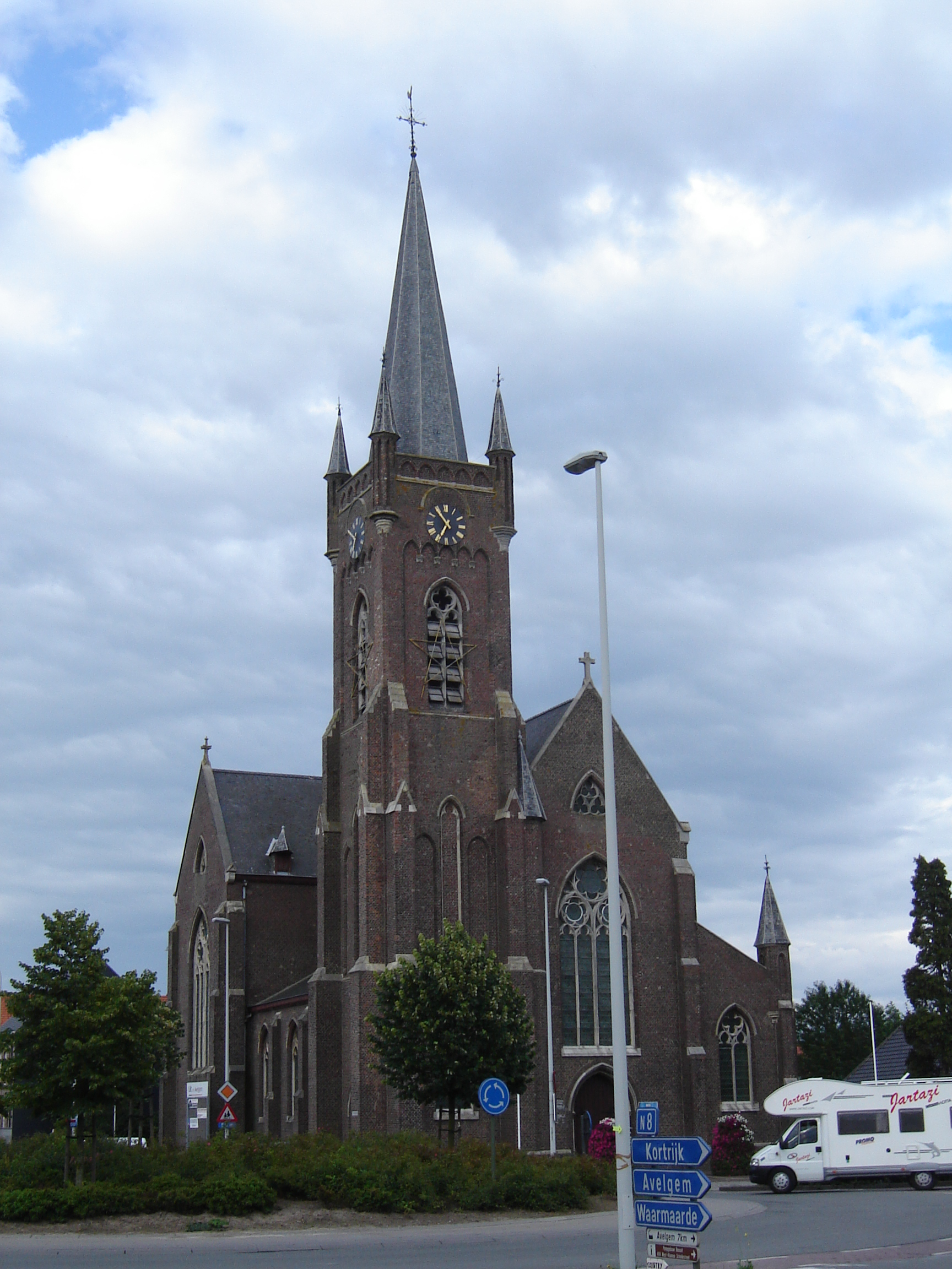 Church of Saint Amand in Kerkhove, Avelgem, West Flanders, Belgium.